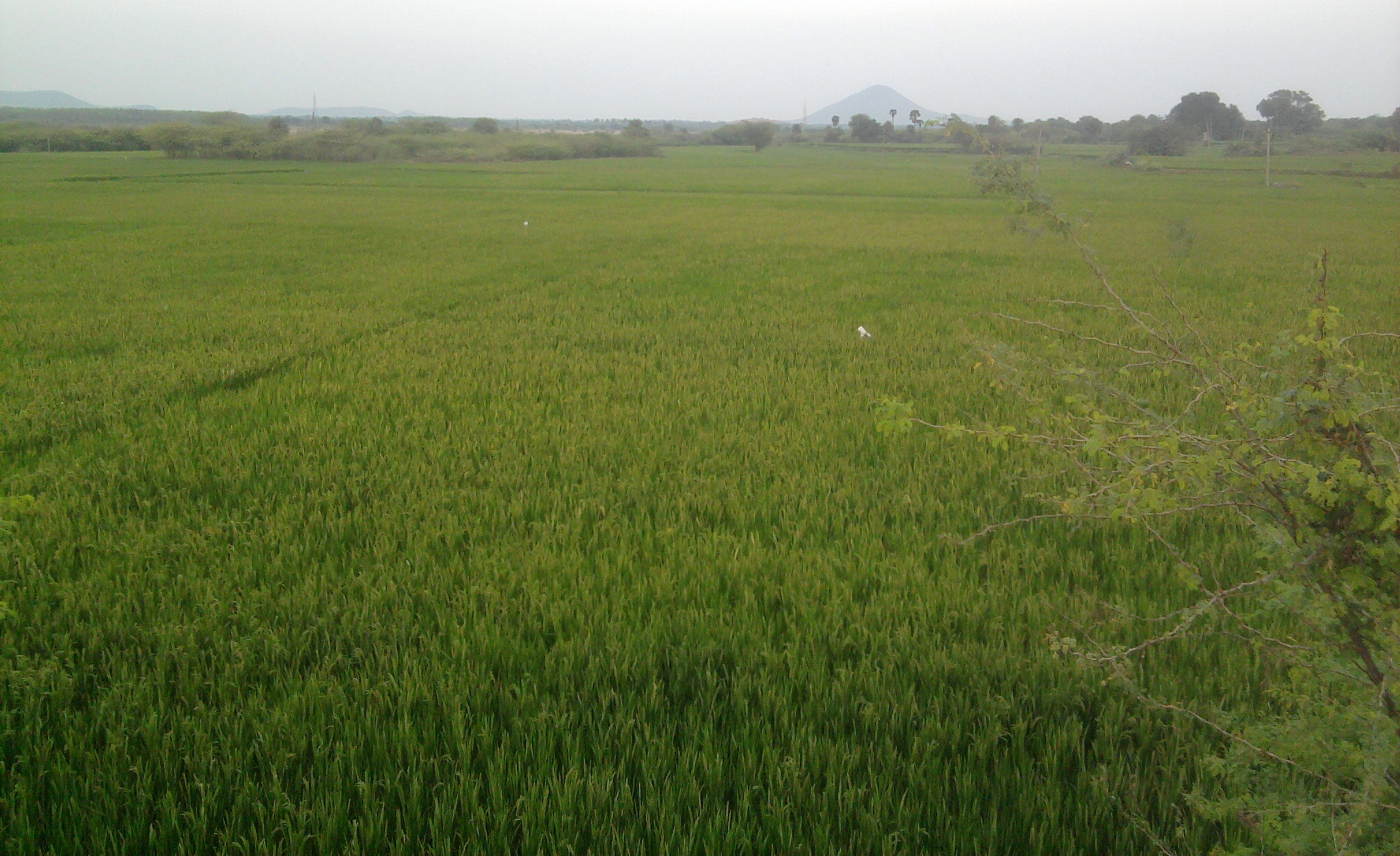 Paddy field